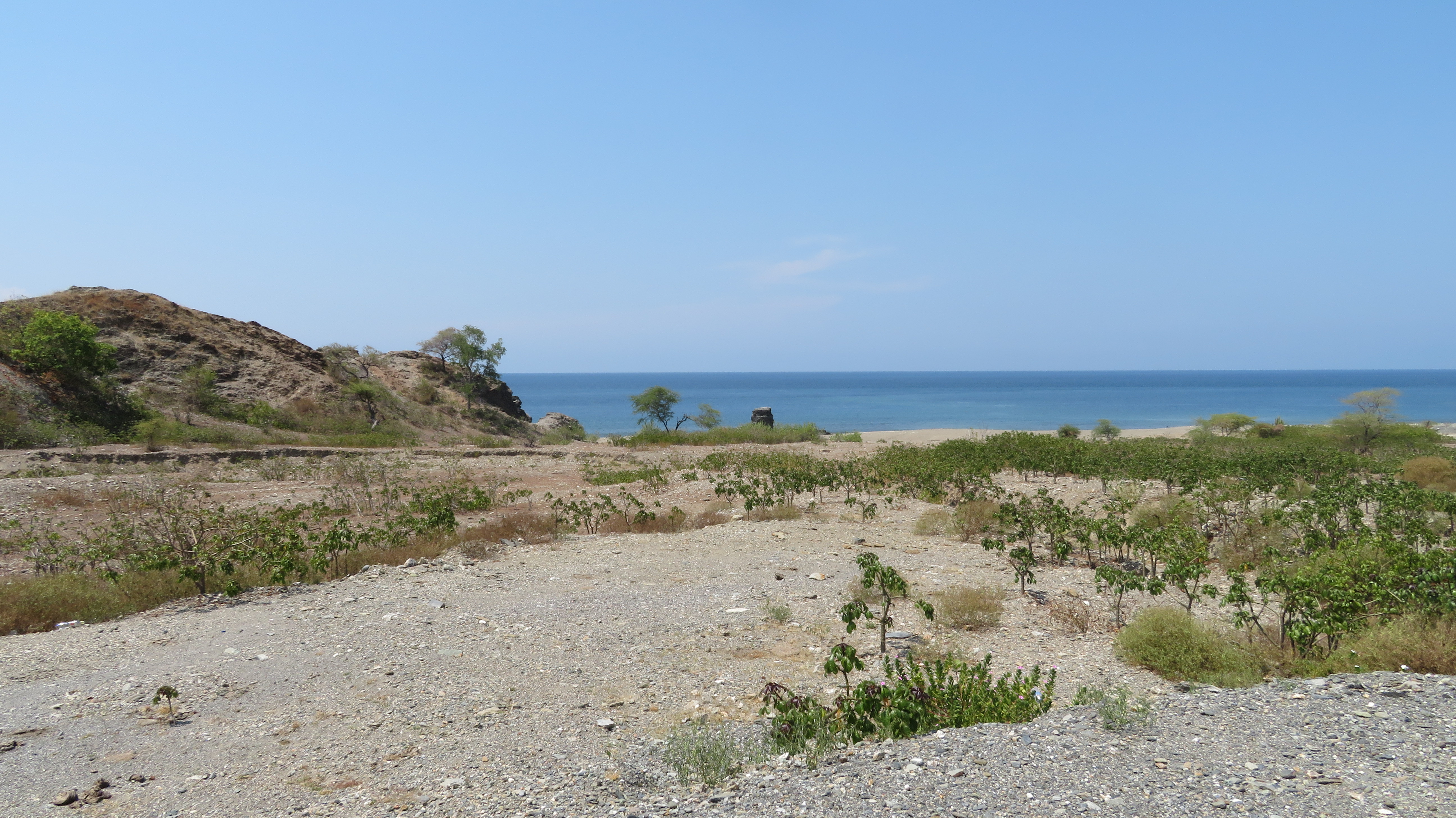 River Gularkoo in Dato (Liquiçá), East Timor, in the dry season